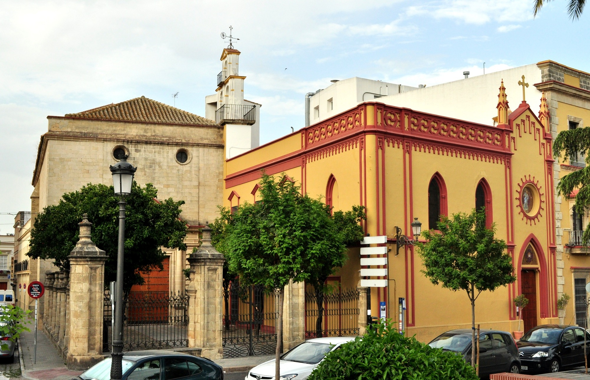 Church of Saint Trinity, Angustias Square, Jerez